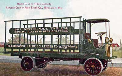 1910 Abresch-Cramer Model C 3-4 tn cabover truck built by the Charles Abresch Co. of Milwaukee, Wisc. This is a unusual design for this manufacturer, as most trucks were of the conventional layout. Model C was the largest model with twin rear wheels. All Abresch-Cramers came with shaft drive to the countershaft, and chains to the rear wheels. Most customers were brewers or bottlers.